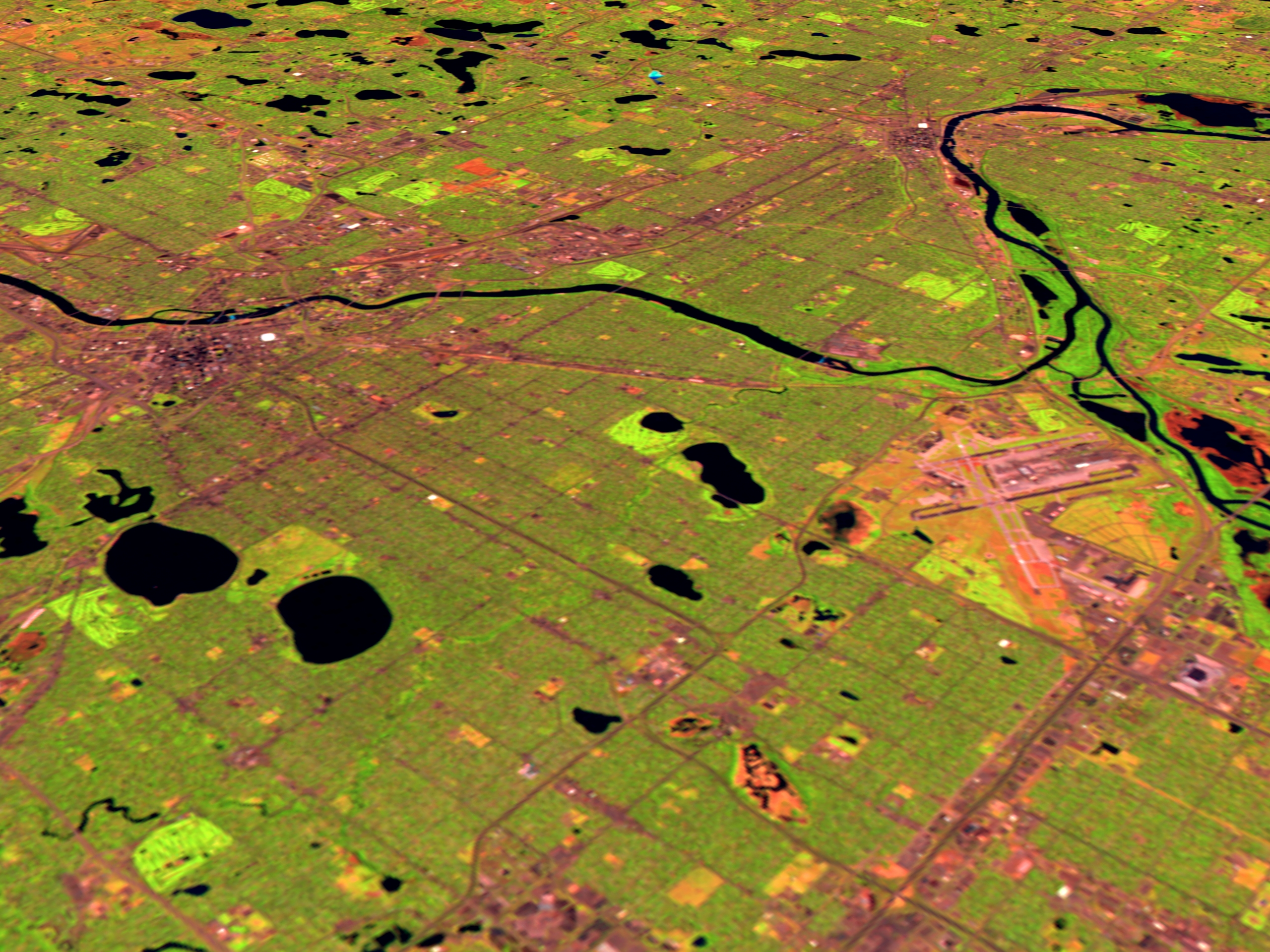 video SVS1999-1002: Minneapolis, Minnesota... "as seen by the Landsat Thematic Mapper (TM) instrument. The shortwave infrared (TM band 5), infrared (TM band 4), and visible green (TM band 2) channels are displayed in the images as red, green, and blue respectively. In this combination, barren and/or recently cultivated land appears red to pink, vegetation appears green, water is dark blue, and artificial structures of concrete and asphalt appear dark grey or black."